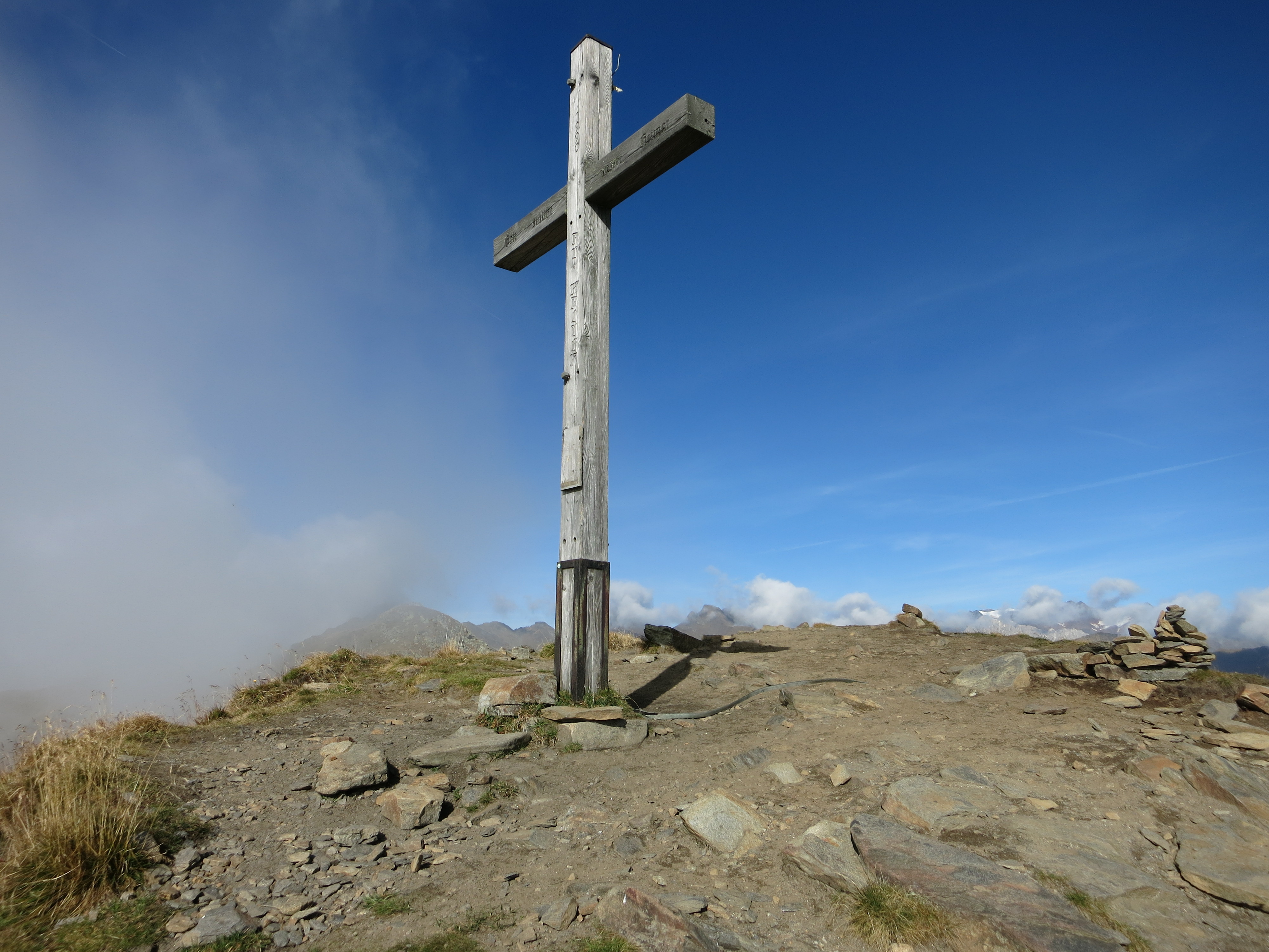 Fleckner, mountain near Ratschings, South Tyrol